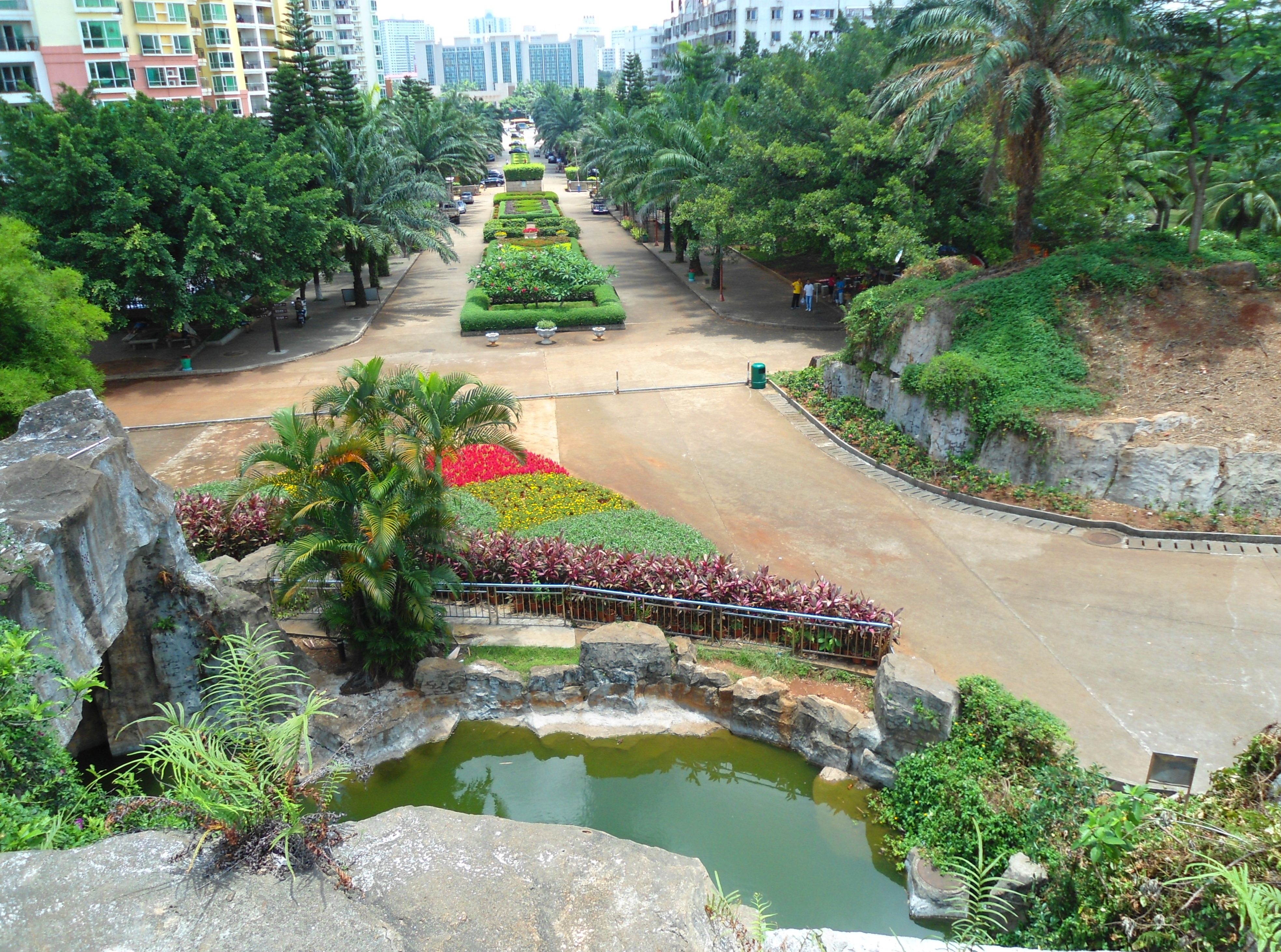 Golden Bull Mountain Ridge Park, Haikou City, Hainan Province, China.